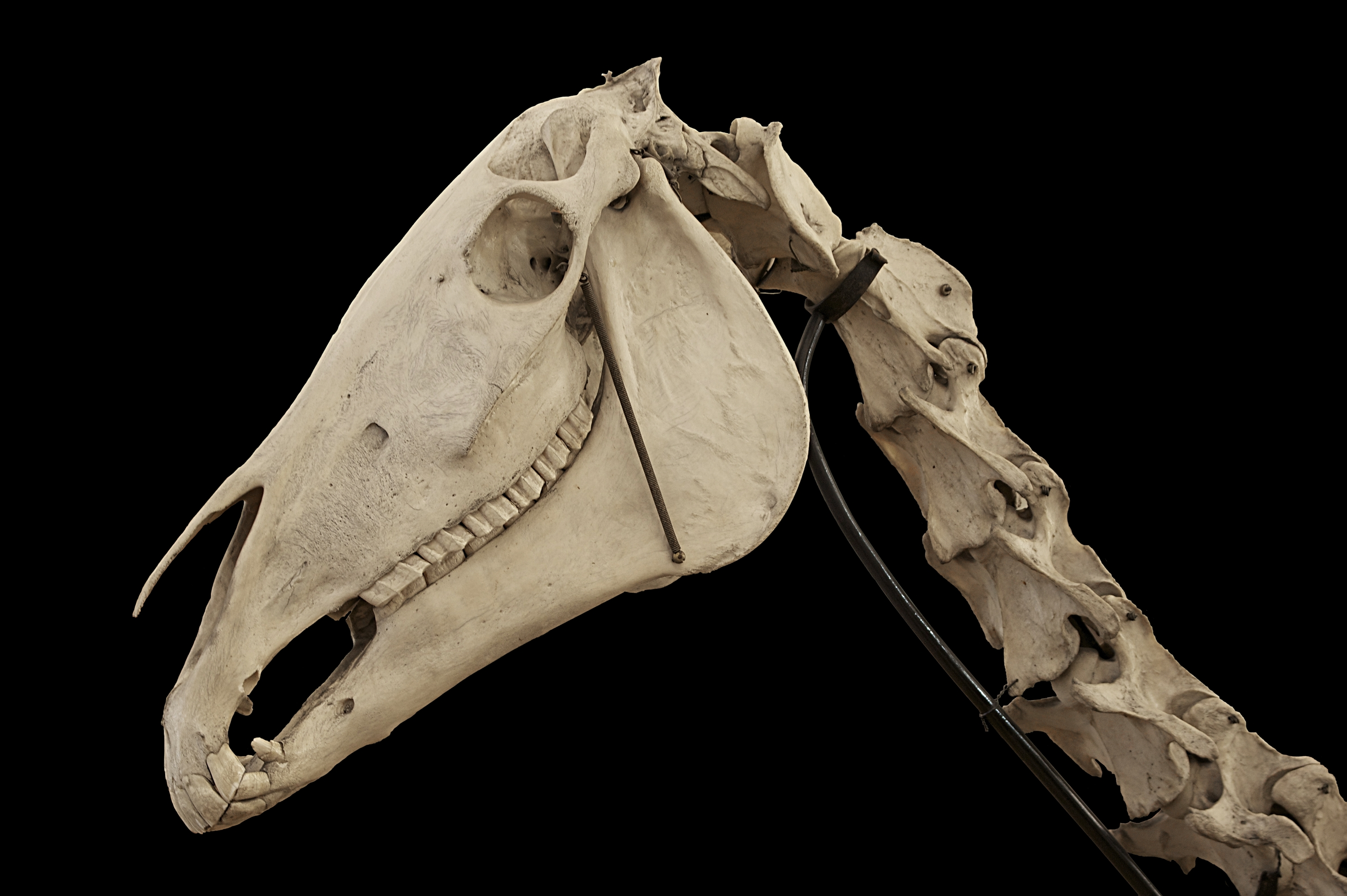 (old) Horse skull and neck vertebrae (Equus caballus) with articulated mandible, used (beginning of 20th century) for veterinarian studies. Sorry for the missing tooth ! On display at Museum Fragonard of the National Veterinarian High School of Alfort, Maisons-Alfort, Val-de-Marne, France